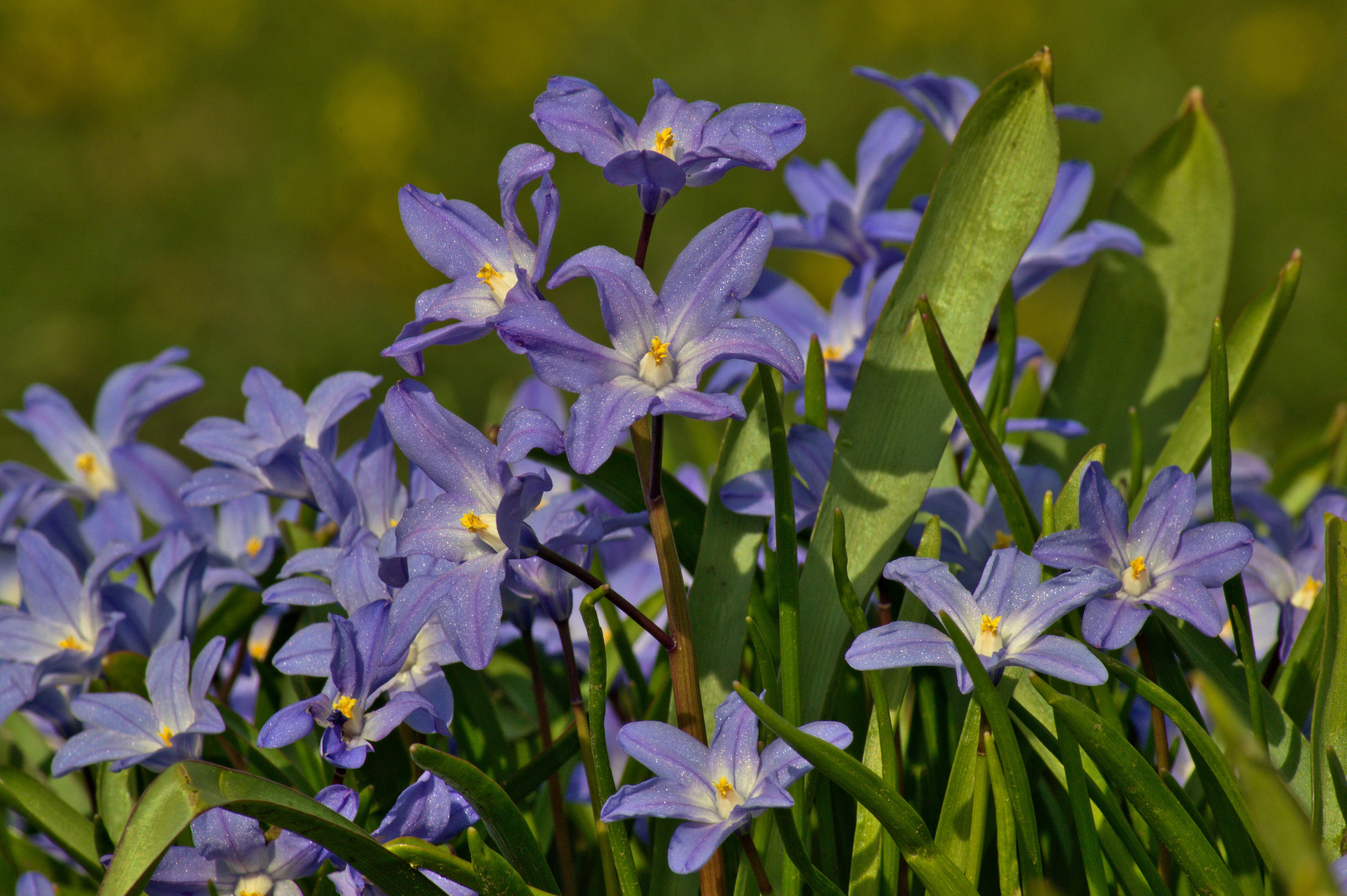 Scilla forbesii in Eskilstuna, Sweden.